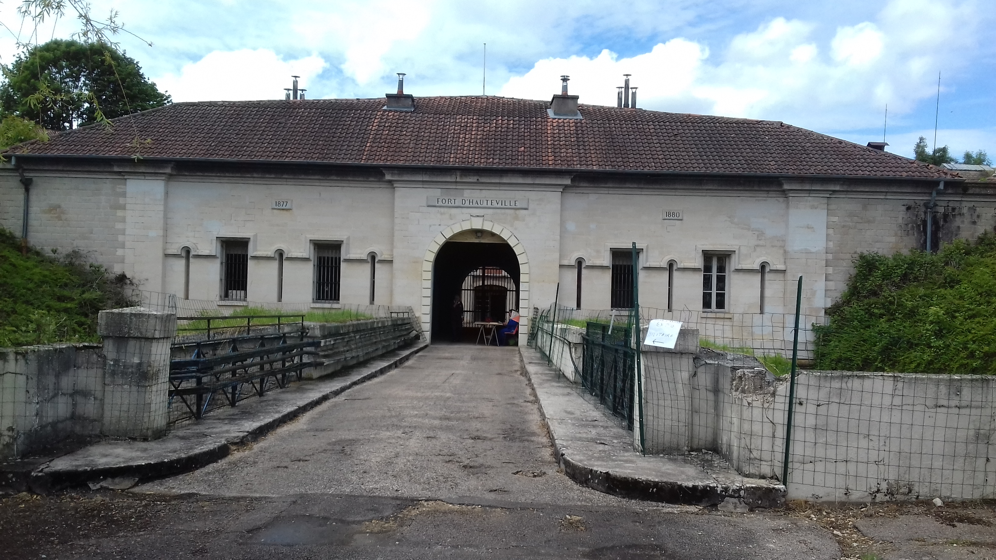 Military Fort of Hauteville-Les-Dijon